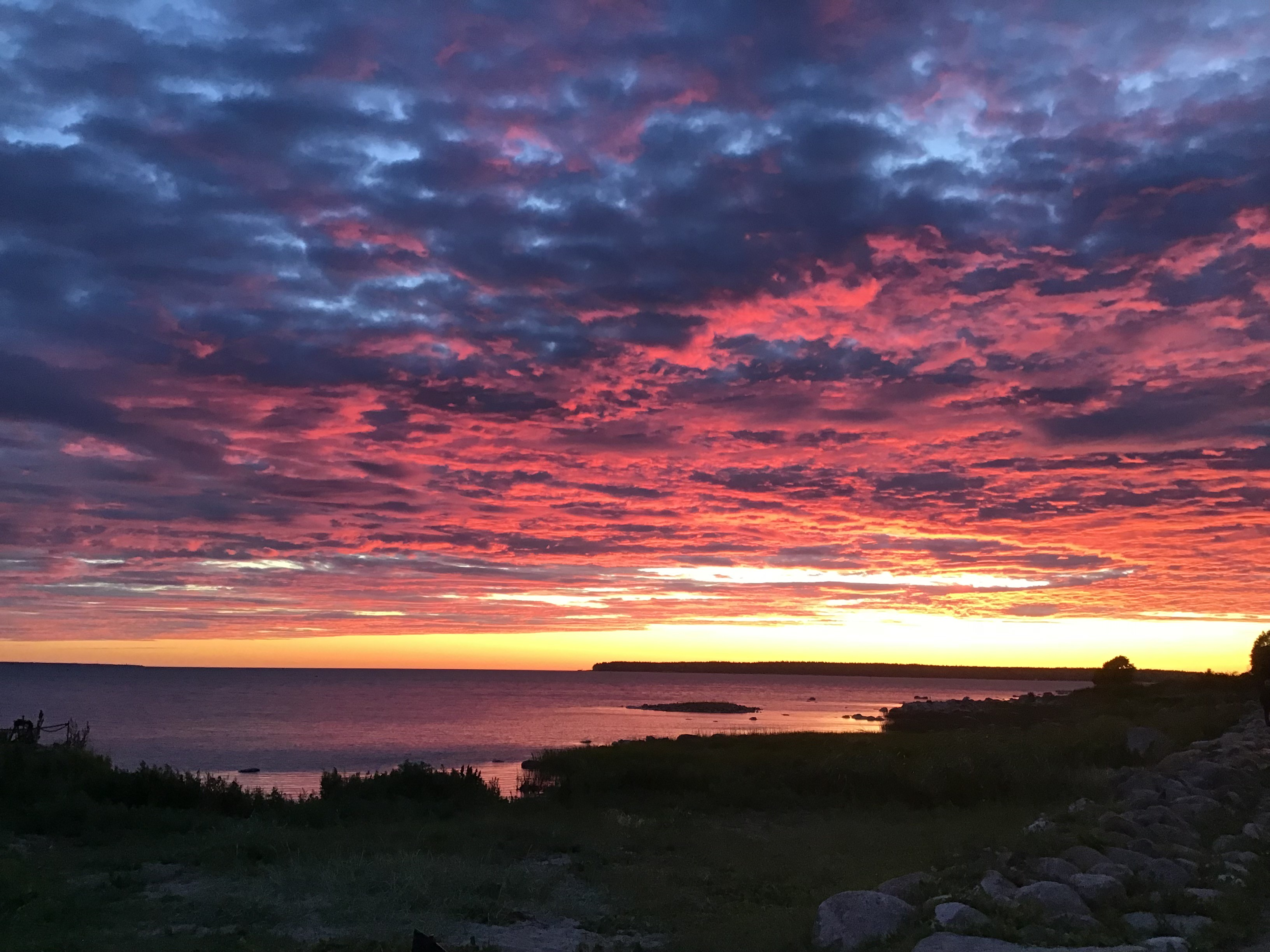 Sunset in Estonia, Püünsi July 1, 2018